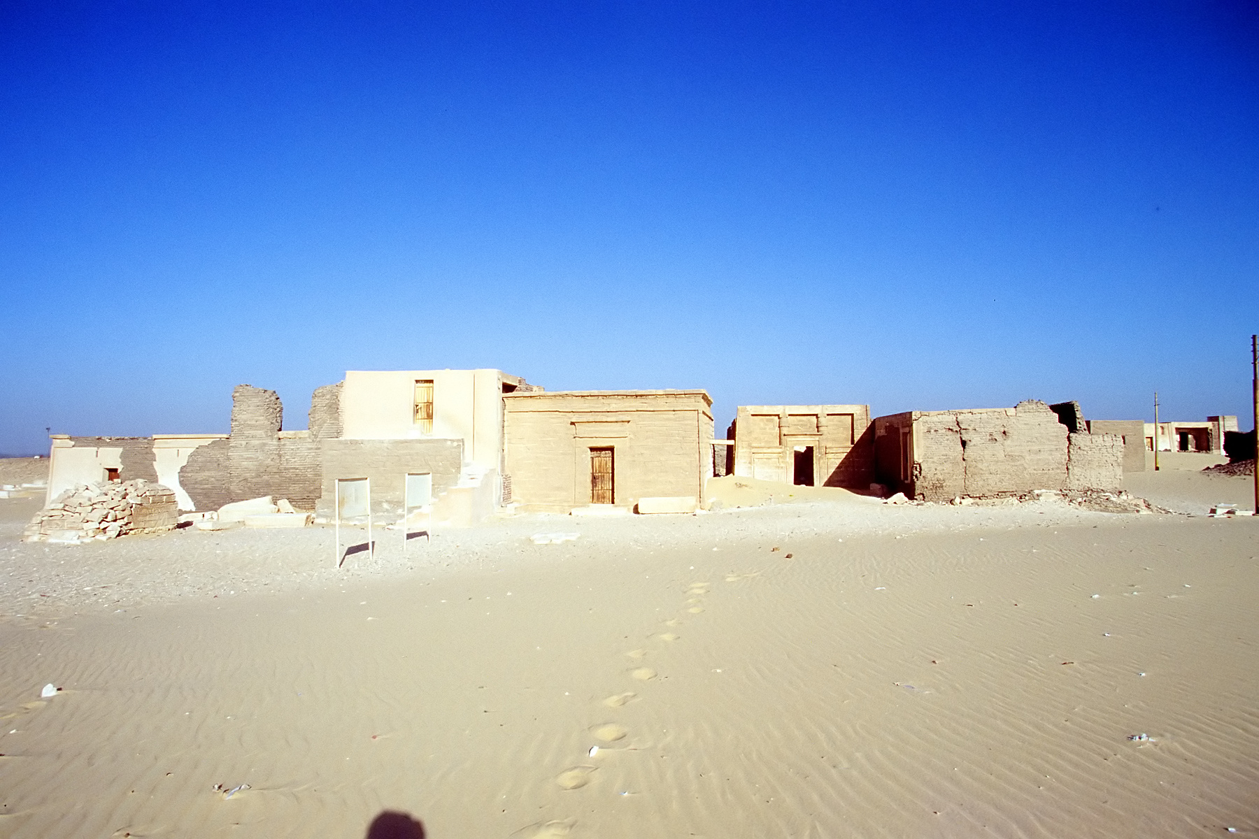 Tombs group with the tomb of Isidora (left), Tuna el-Gebel, Egypt